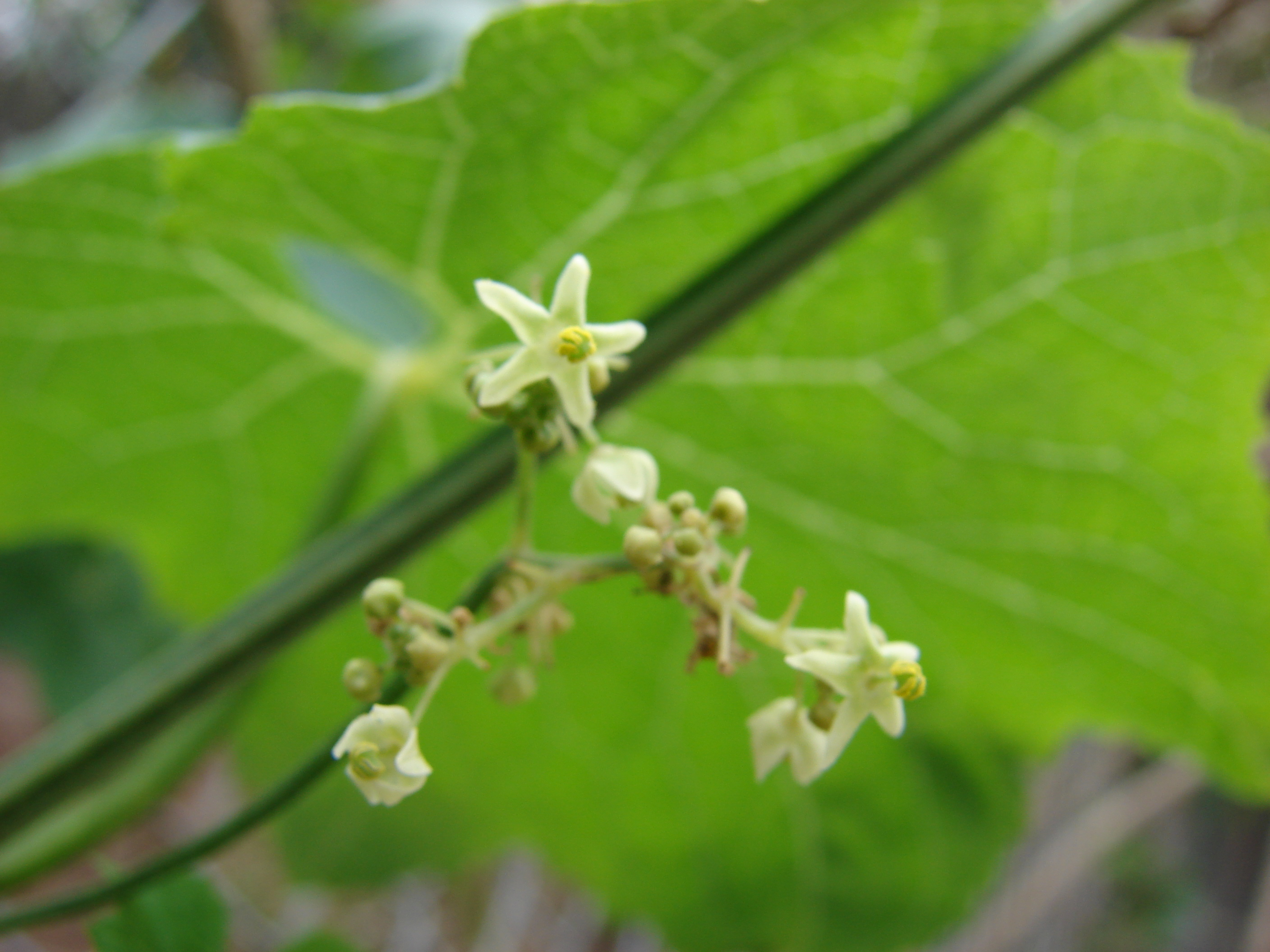 Sicyos pachycarpus (leaf and flowers). Location: Maui, Kula